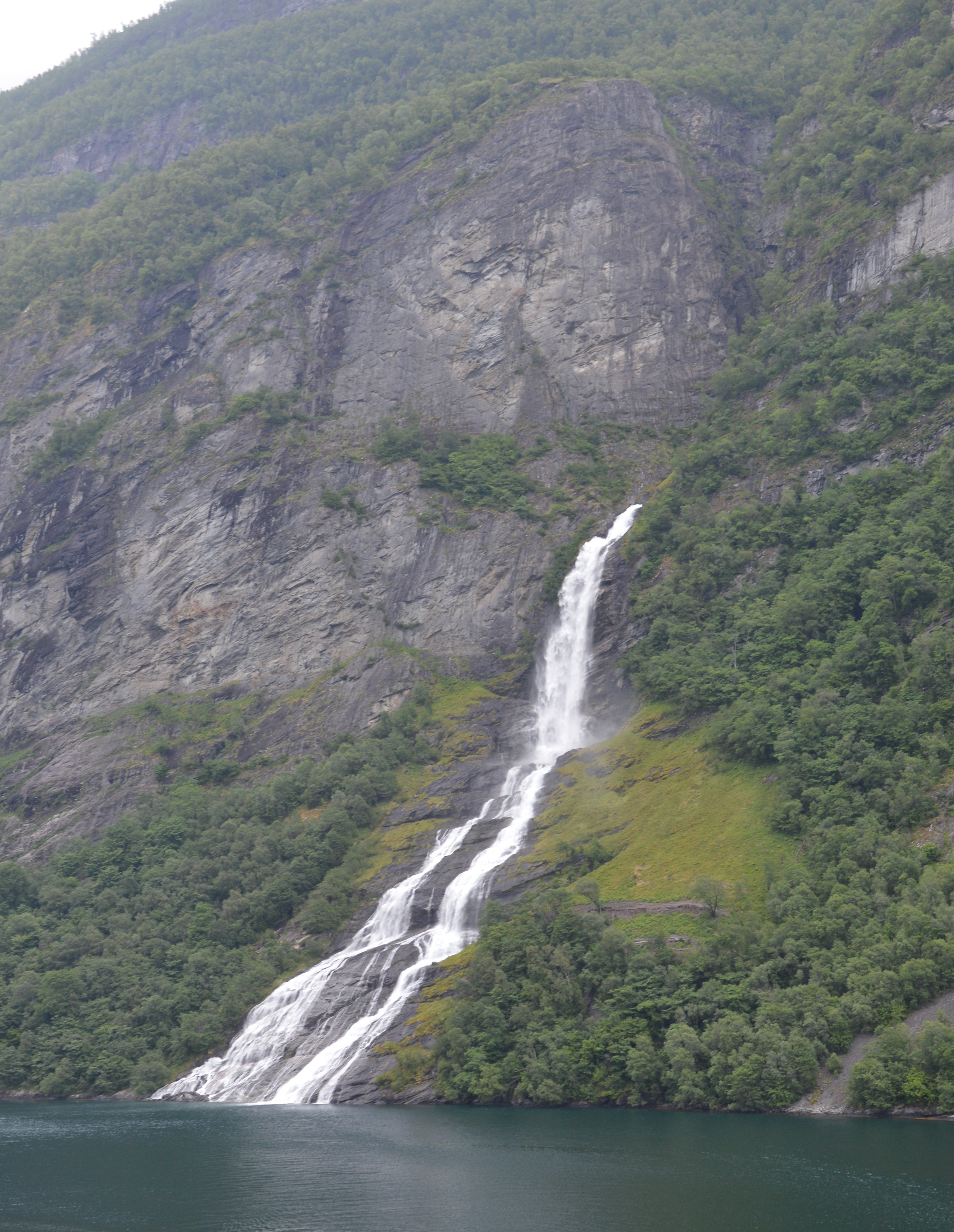 The Suitor (Friaren) waterfall, Geiranger fjord, Norway